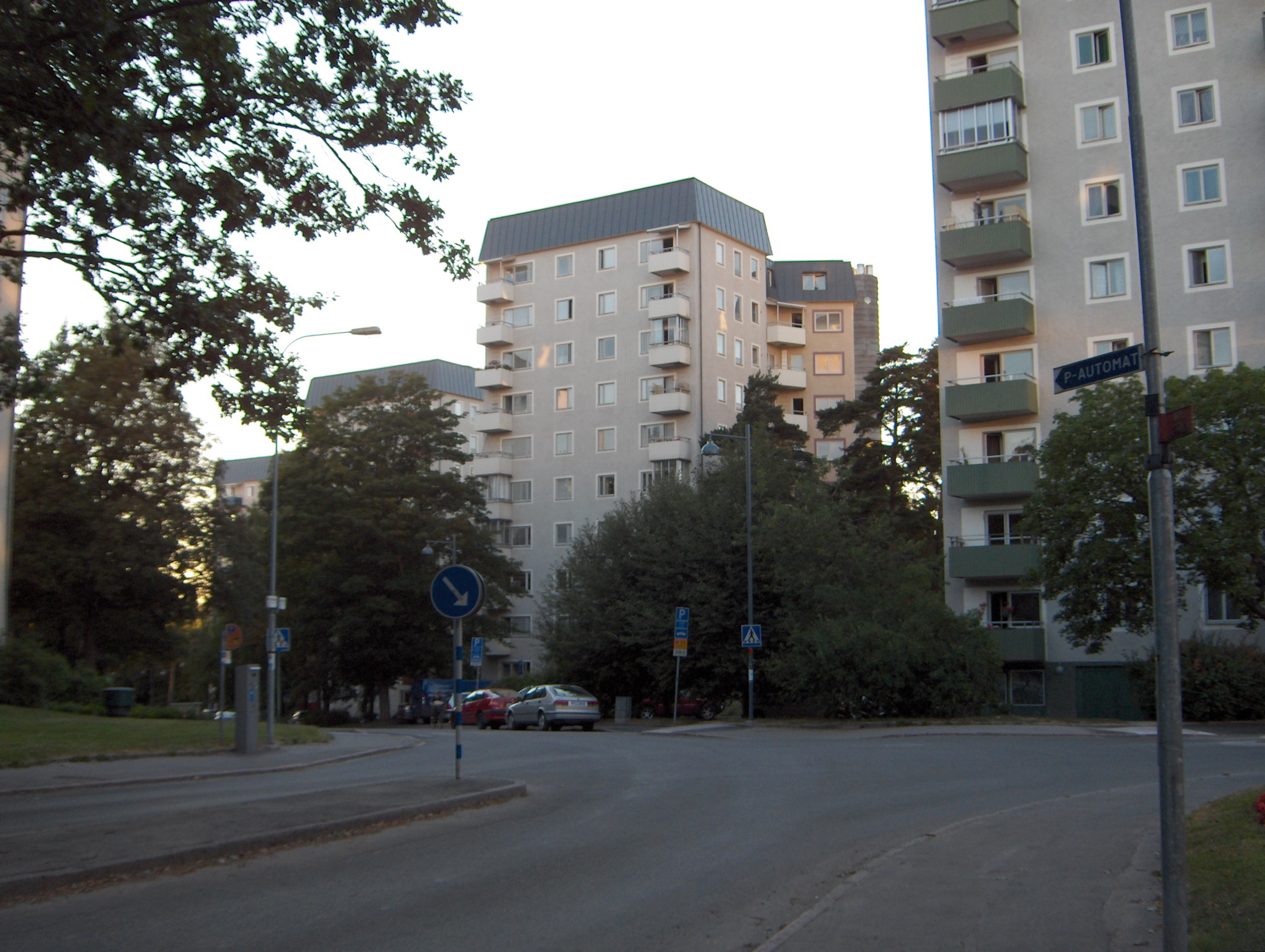 Houses in Storskogen, Sundbyberg, Sweden.